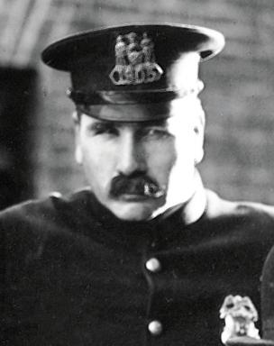 Crop from a publicity photo from Charlie Chaplin's The Kid showing Tom Wilson as the cop.